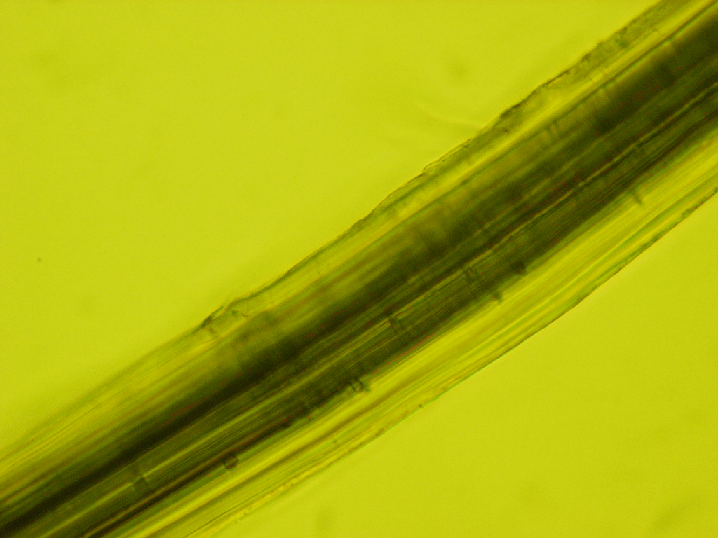 Abaca 40X Magnification Taken at Strathclyde University Forensic Science Department Taken By Edward Dowlman